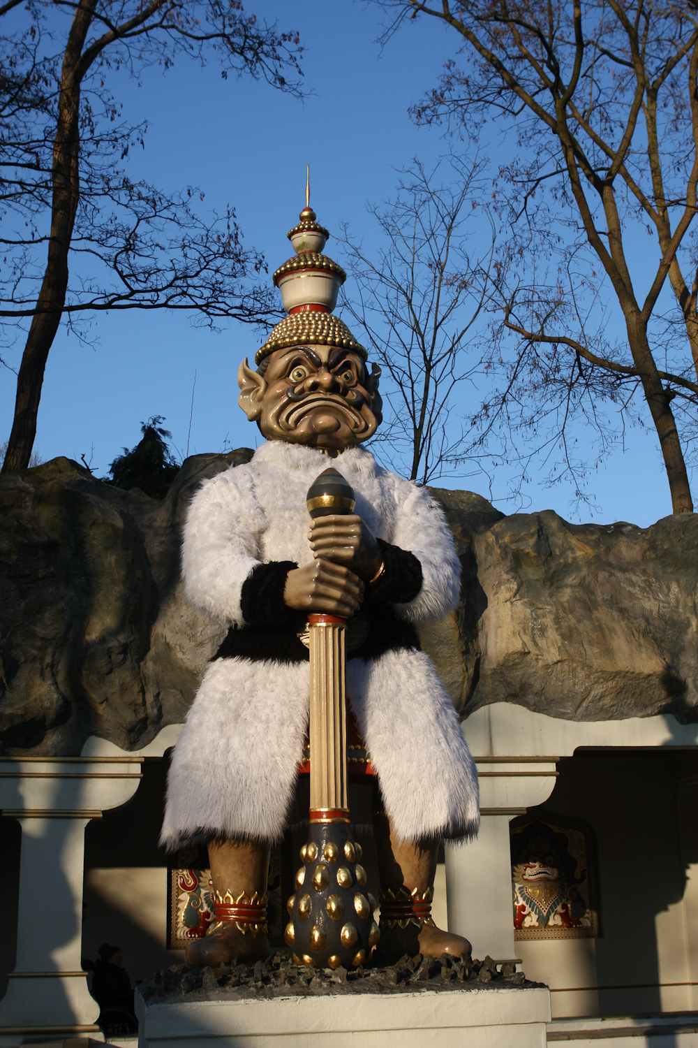 Guard at the Indische Waterlelies, a fairytale in the Dutch theme park de Efteling.